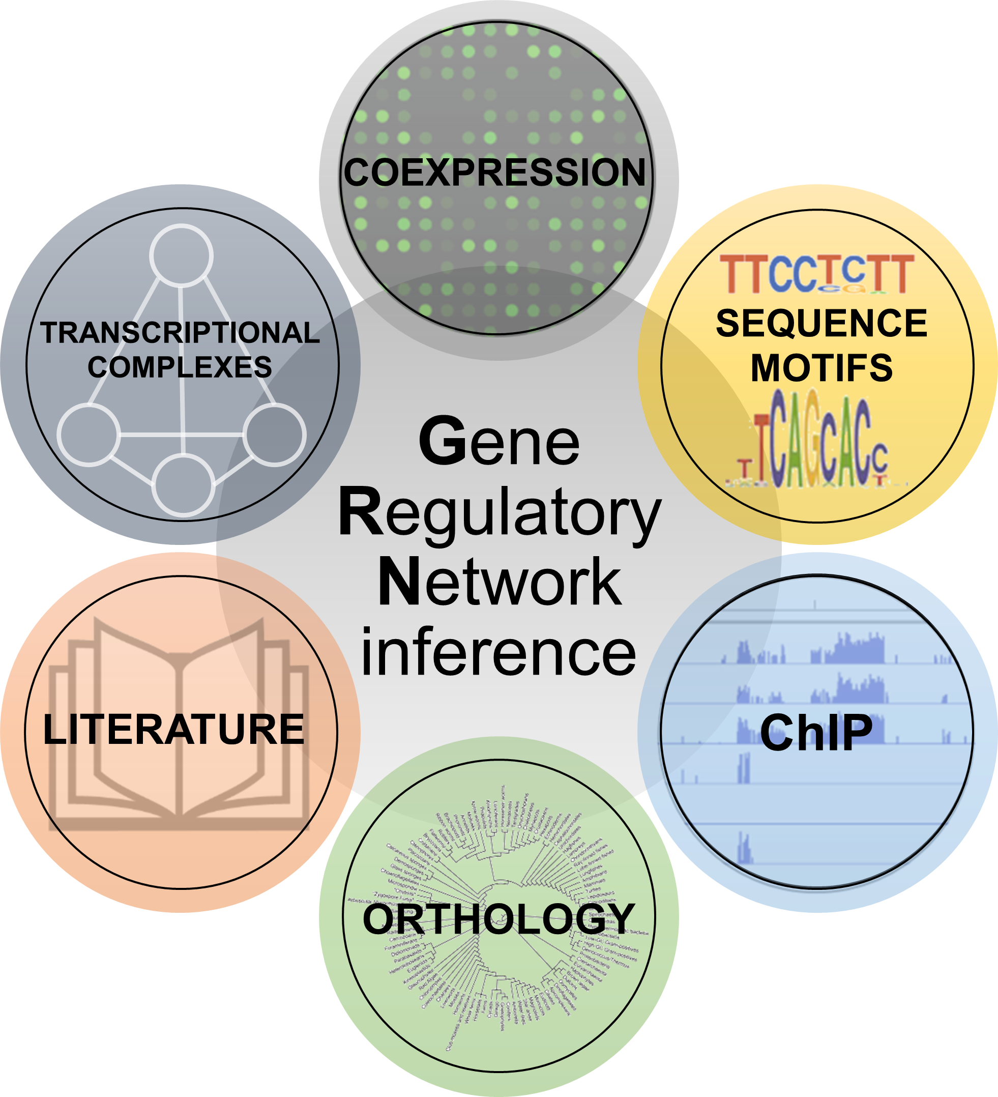 The six major classes of gene regulatory network reverse engineering, from [1]